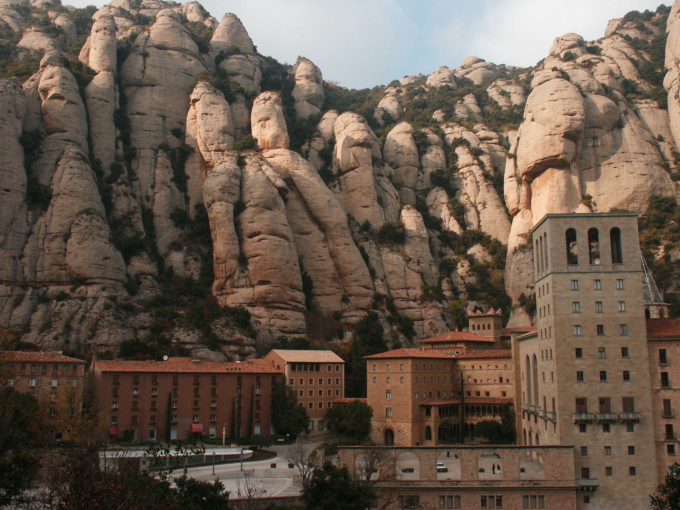 This photograph depicts the monastery at Montserrat in Catalonia, Spain. This is the first of two such pictures that I am uploading. Photo by Gyrofrog, November 25, 2004.